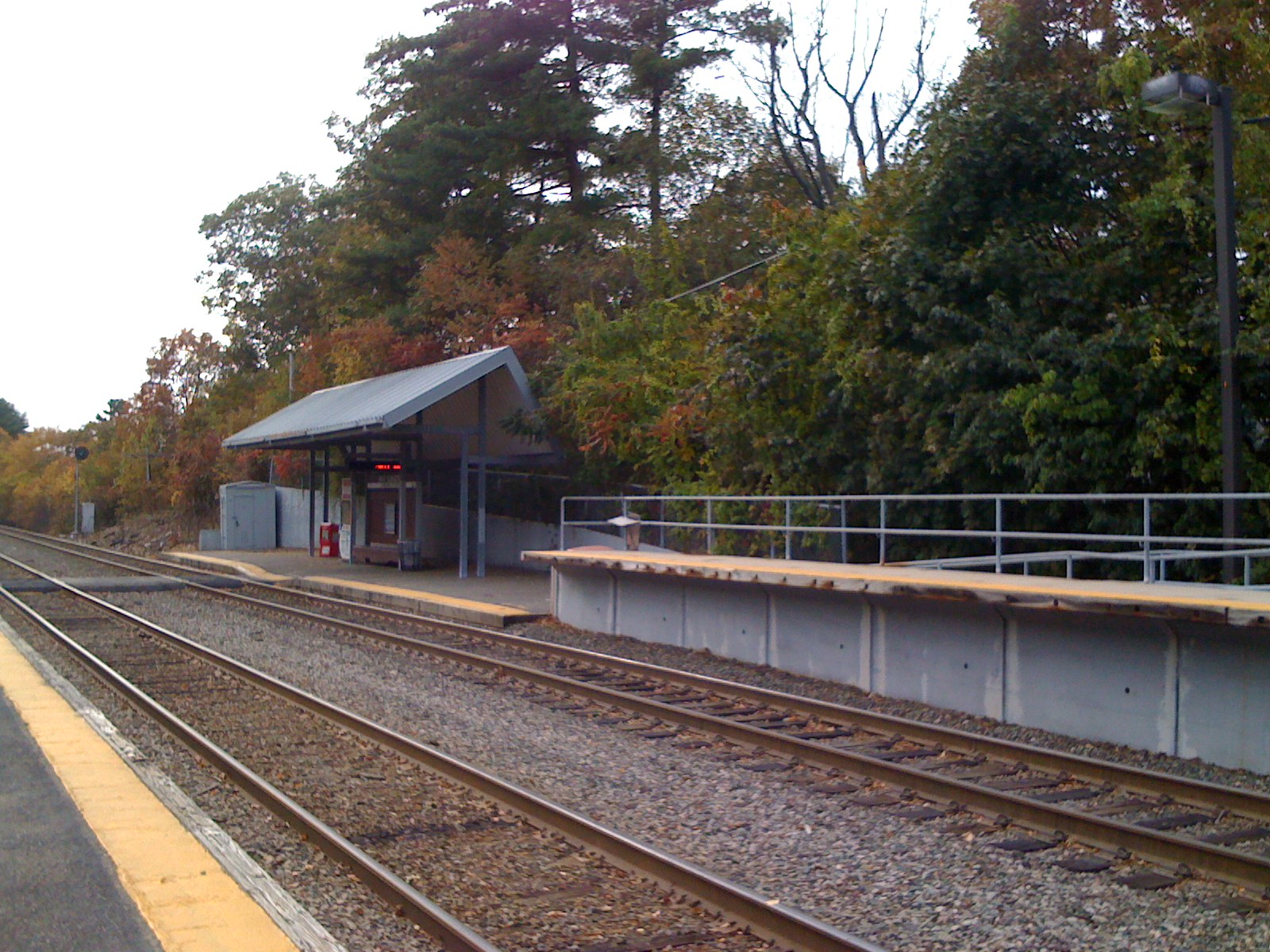 MBTA West Gloucester station inbound platform